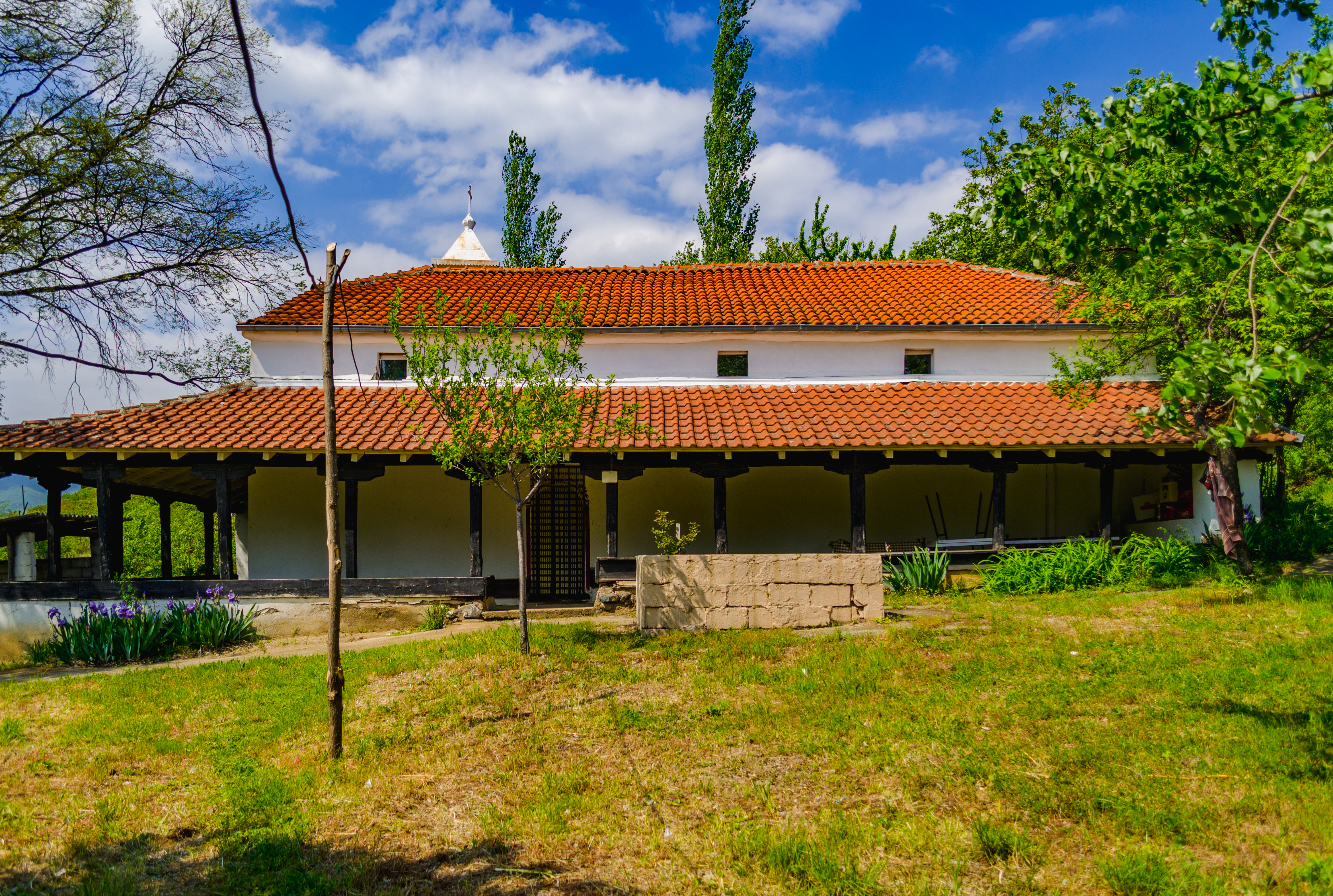 St. Demetrius Church in the village of Kovanec, Macedonia